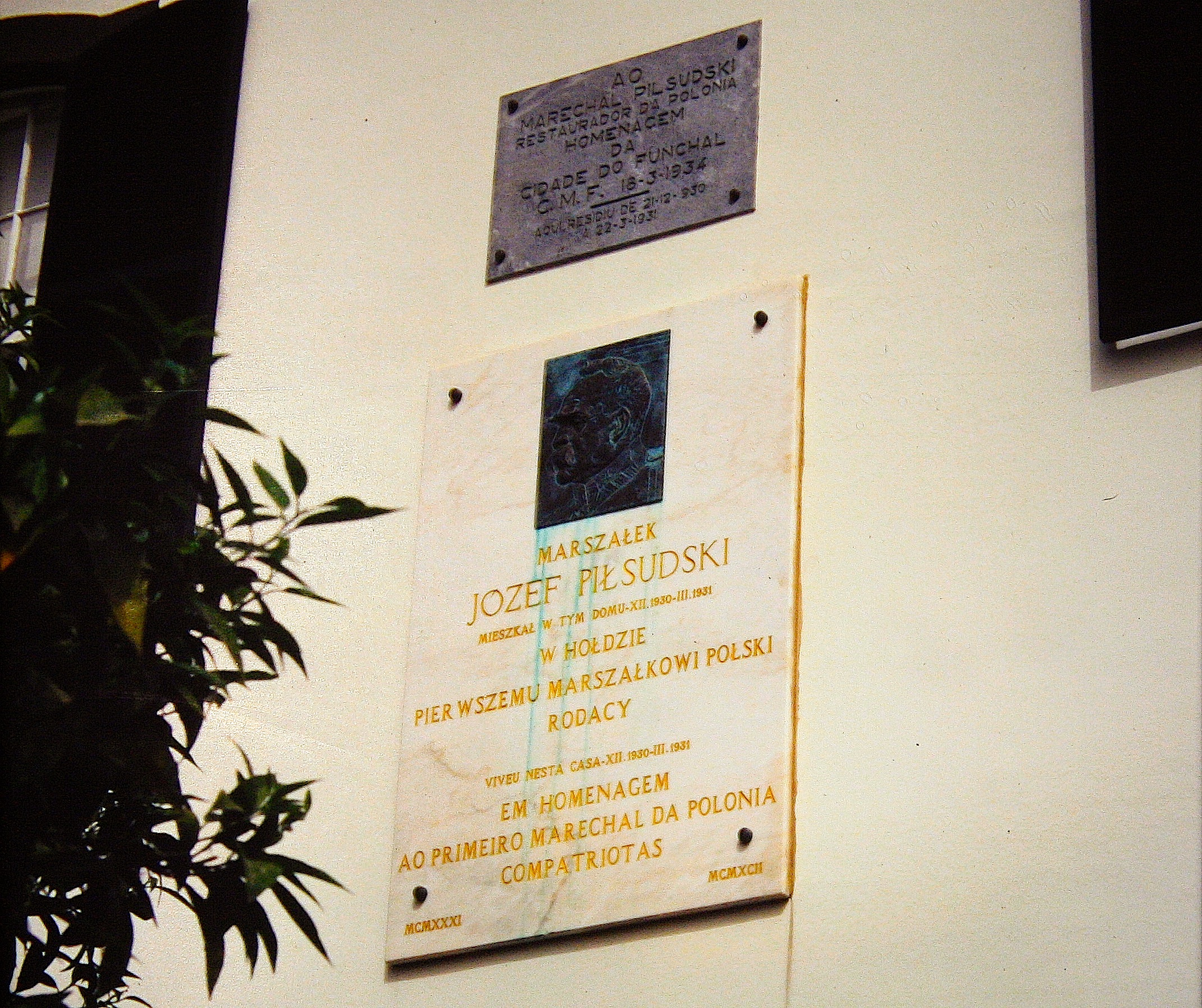 Memorial plaques to Marshal Piłsudski, Quinta Bettencourt, Funchal, Madeira